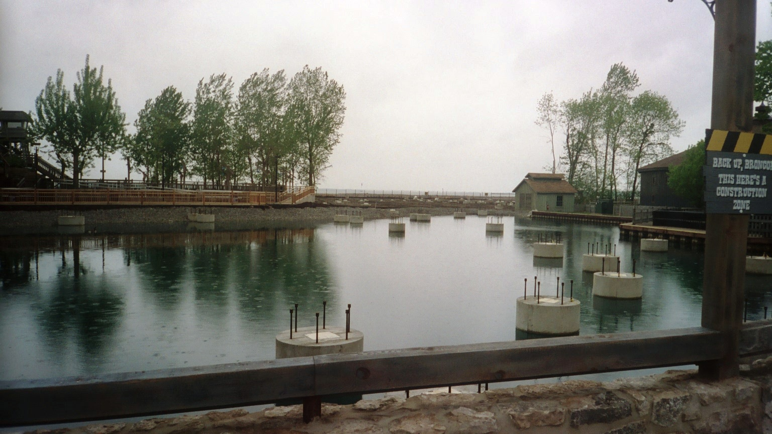 This photo, taken by User:Coaster1983 at Cedar Point amusement park on May 13th, 2006, shows Maverick's footers dotting the former Swan Boat pond.